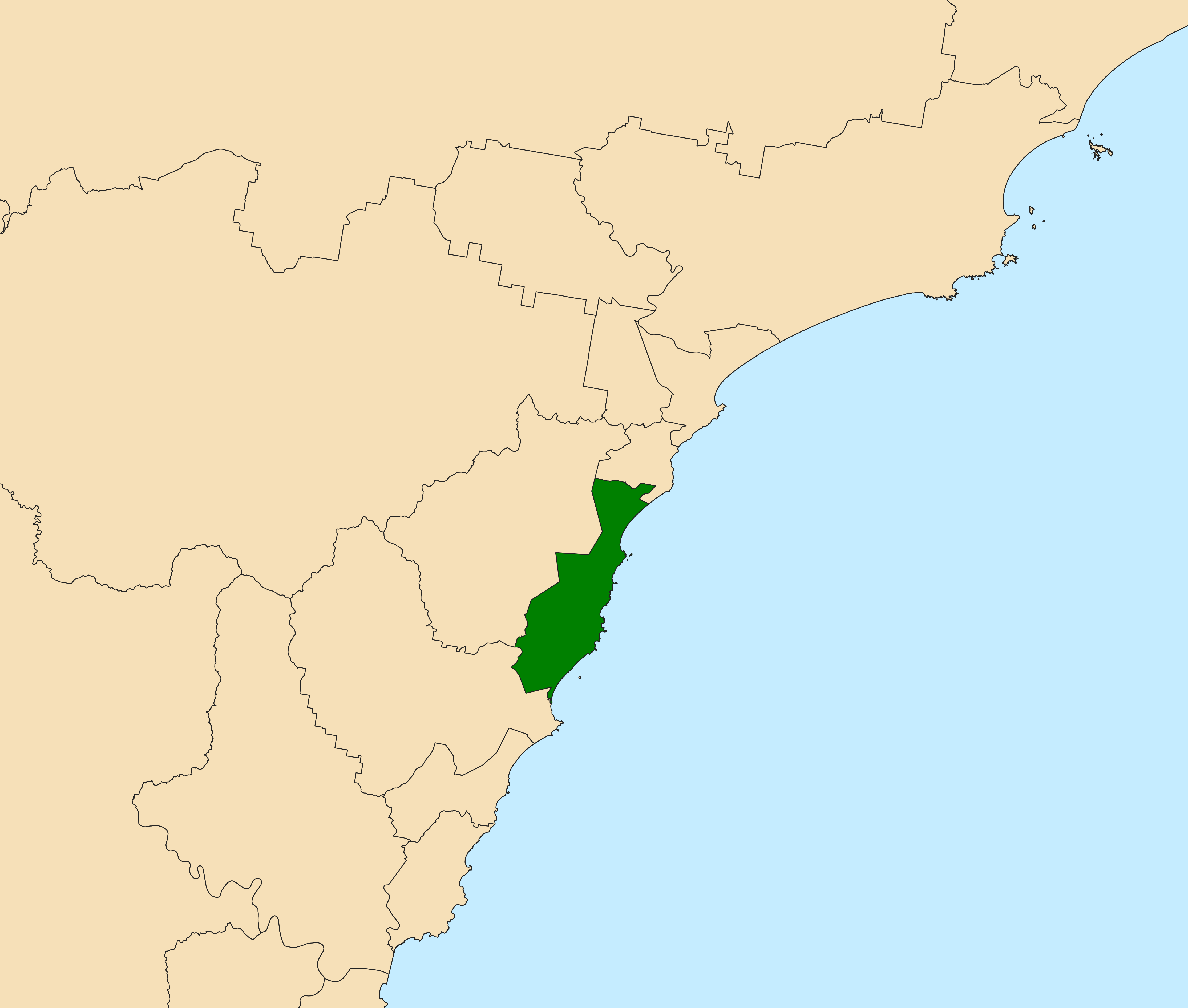 Location of the state electoral district of Swansea (dark green) in the Central Coast region of New South Wales, Australia as of the 2019 New South Wales state election. Incorporates or developed using Administrative Boundaries ©PSMA Australia Limited licensed by the Commonwealth of Australia under Creative Commons Attribution 4.0 International licence (CC BY 4.0).